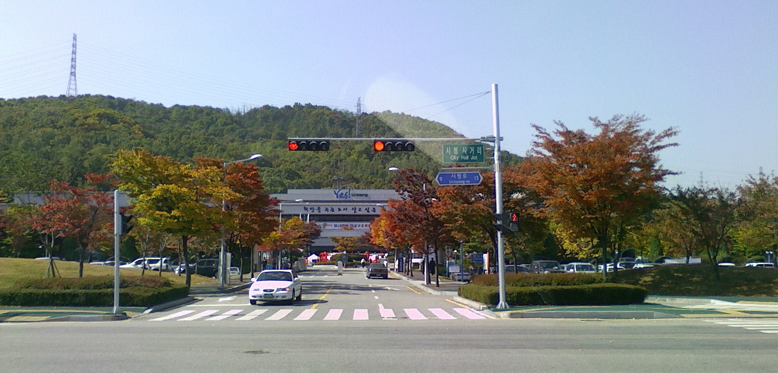 Joint Fire Training in Uiwang cityhall